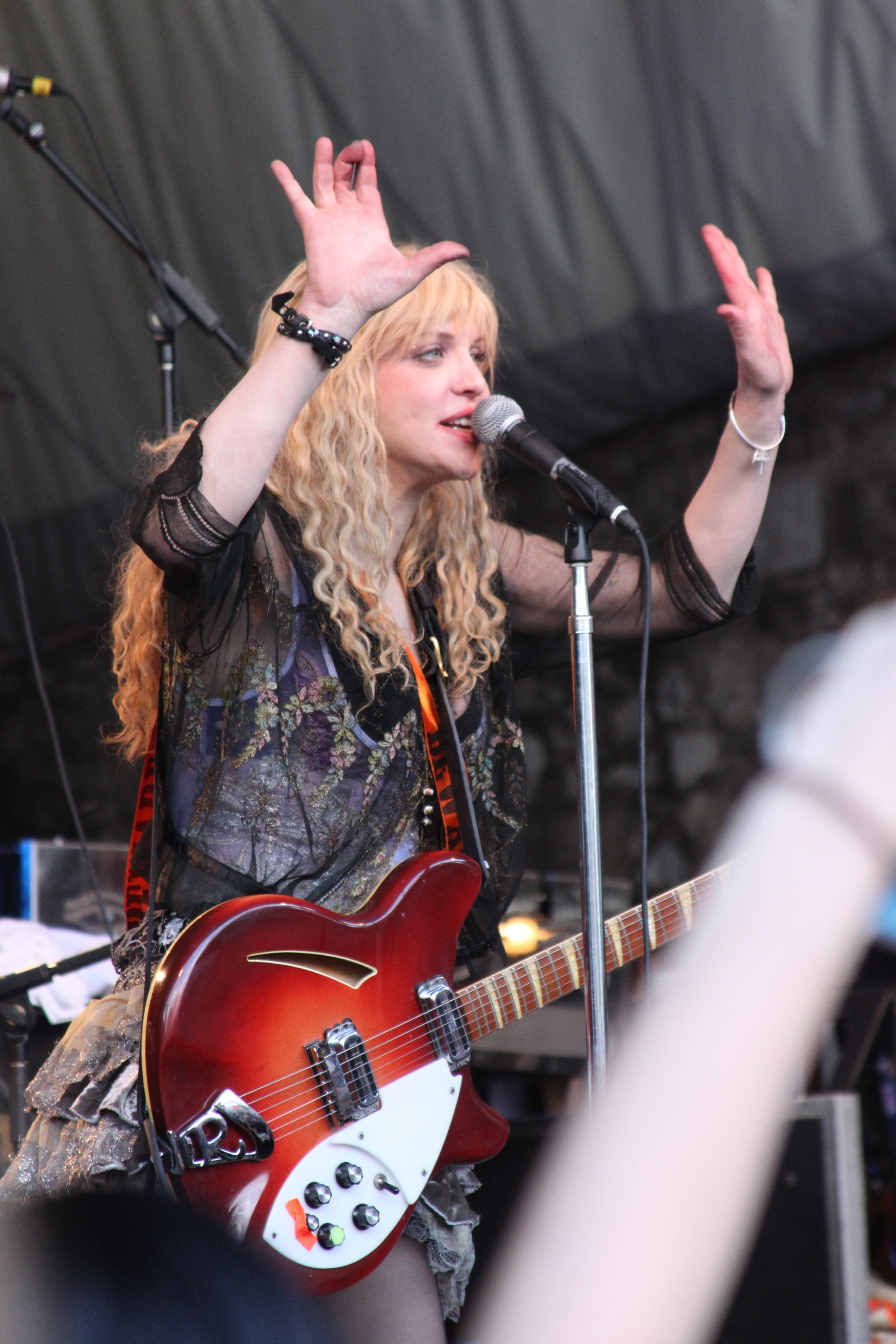 Photograph of Courtney Love performing with Hole at SXSW festival in Austin, TX for Spin Magazine party, March 2010.